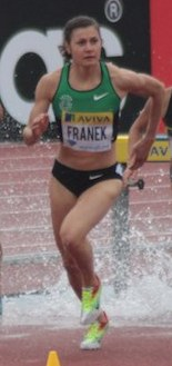 Bridget Franek, Crystal Palace Grand Prix, Diamond League 2012